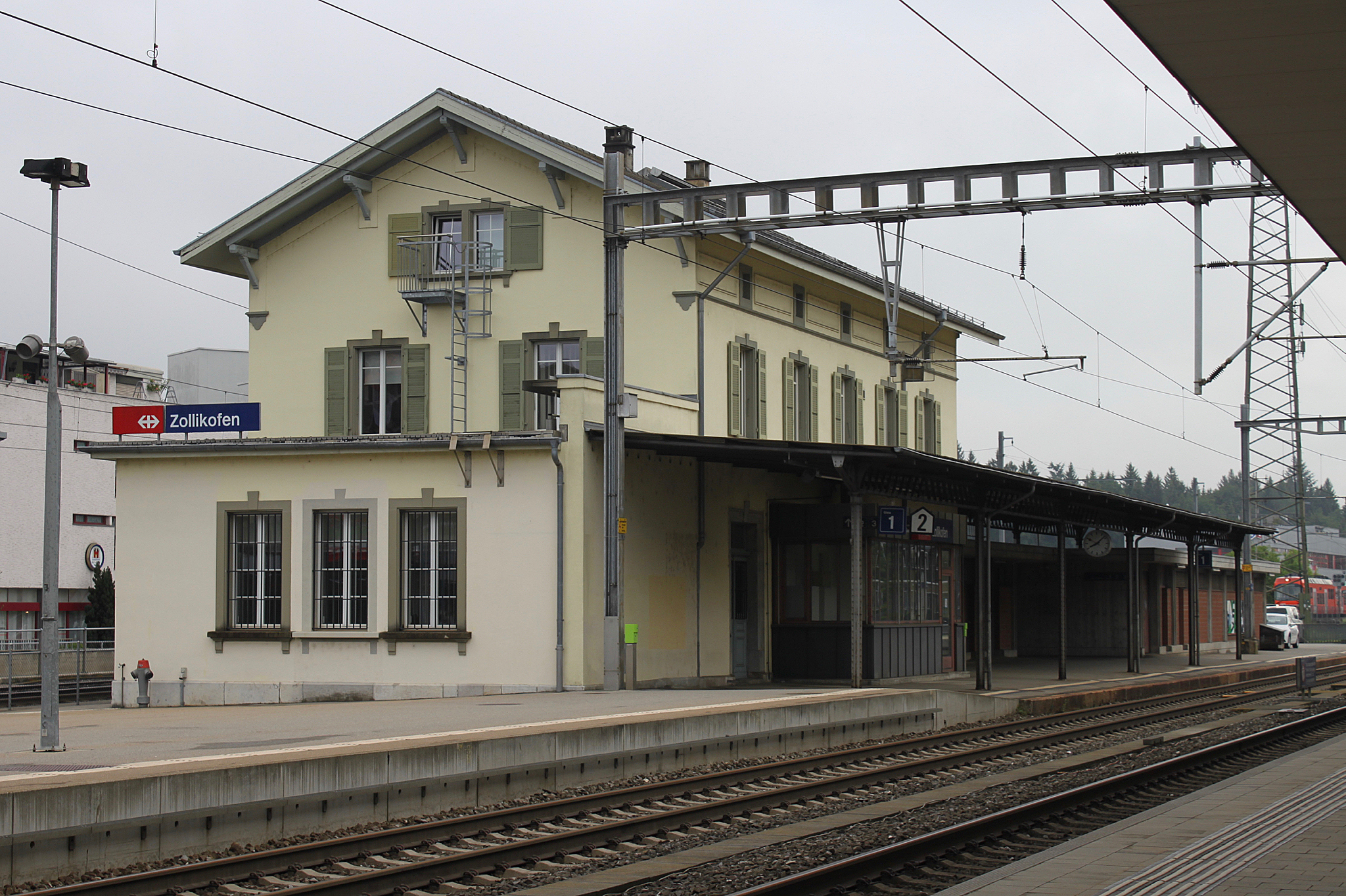 Zollikofen railway station.